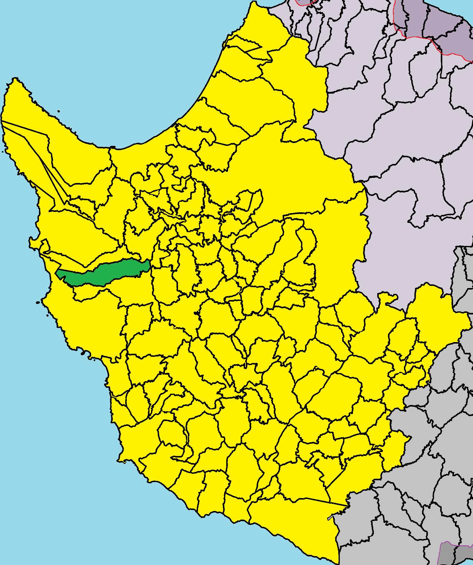 Pano Arodes in Paphos District.